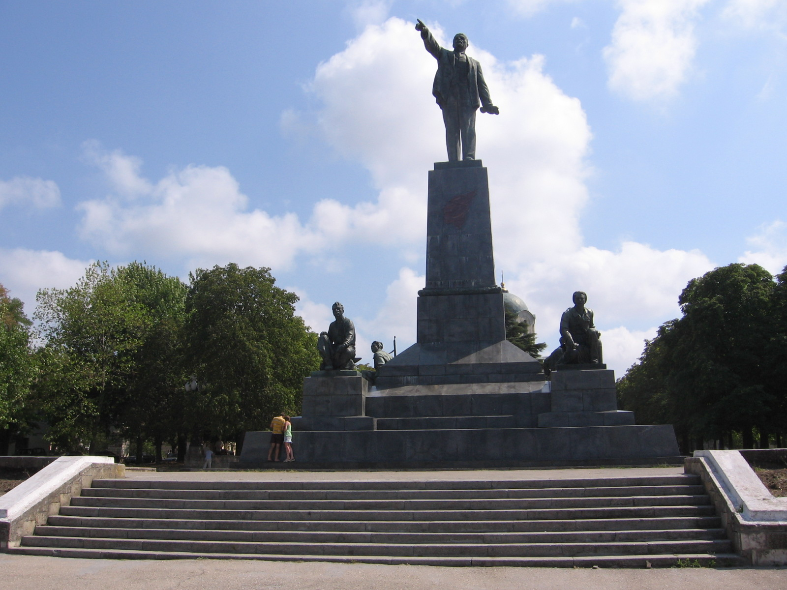 Monument to Vladimir Lenin in Sevastopol. Built in 1957 for the 40th anniversary of the Great October Socialist Revolution. Sculptor: Pavel Bondarenko, architects: G.V.Schuko, S.Ya.Turkovskiy.